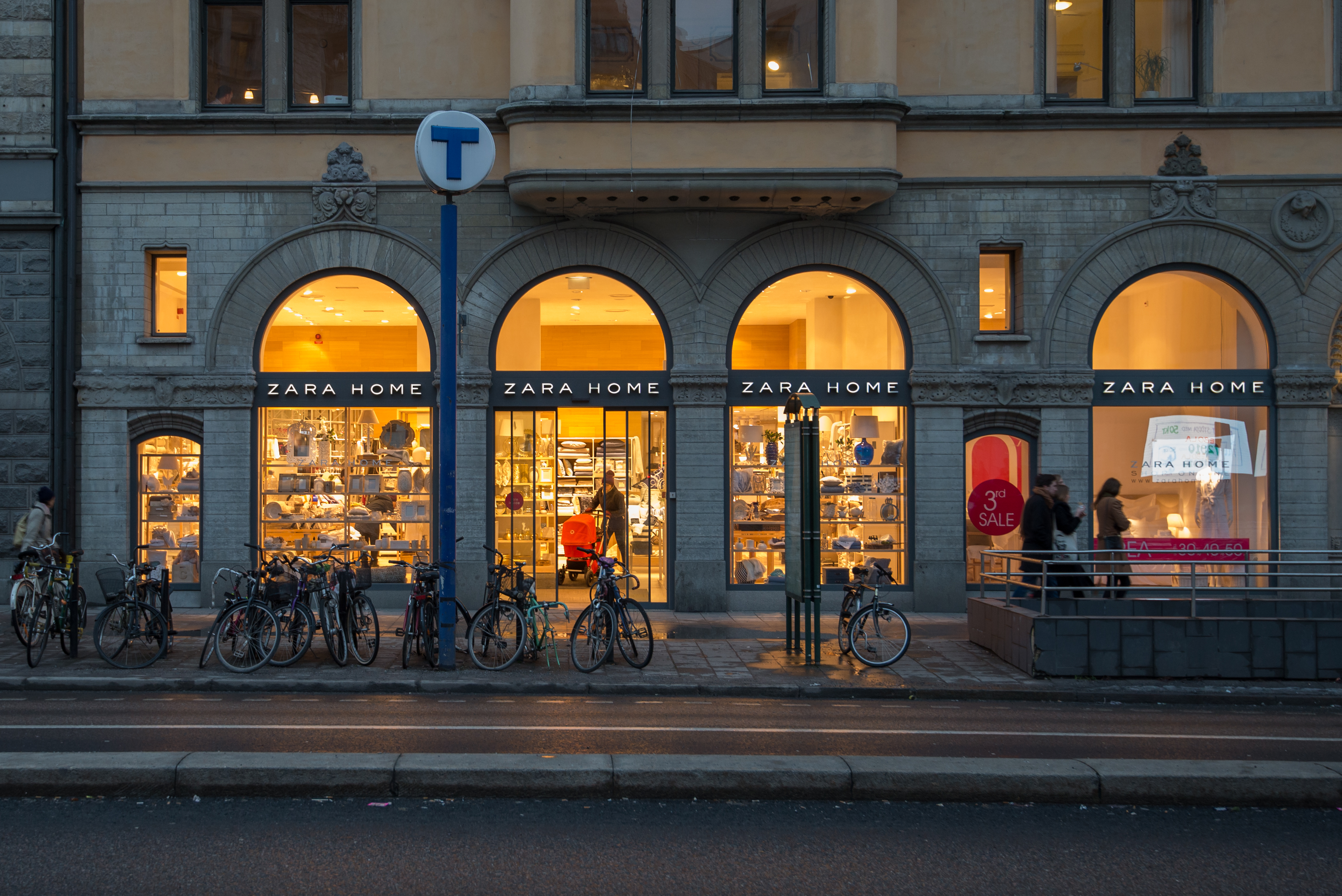 Zara Home shop at Birger Jarlsgatan, Stockholm.